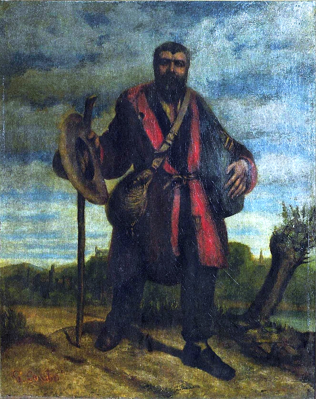 Portrait de Monsieur Jean Fournet or L'Apôtre Jean Journet partant pour la conquête de l'harmonie universelle : this oil on canvas has been also translated into a lithographic print by Courbet in 1850. Salon de Paris (1850-1851). In 1885, this painting was exhibited at the Beaux-Arts de Paris, the private collector was "MMR" [Jean-Paul Mazaroz-Ribalier]. Sold in 1890 (Paris), to a new collector, Gabrielle Esnault-Pelterie. In 1946, Hildebrand Gurlitt, who said he has bought it during the German Occupation in France, said this painting was destroyed during the Dresden Blast. This is a reproduction of a photograph found in 2014 in Gurlitt's home in Salzburg : this painting therefore still exists and is unlocated.